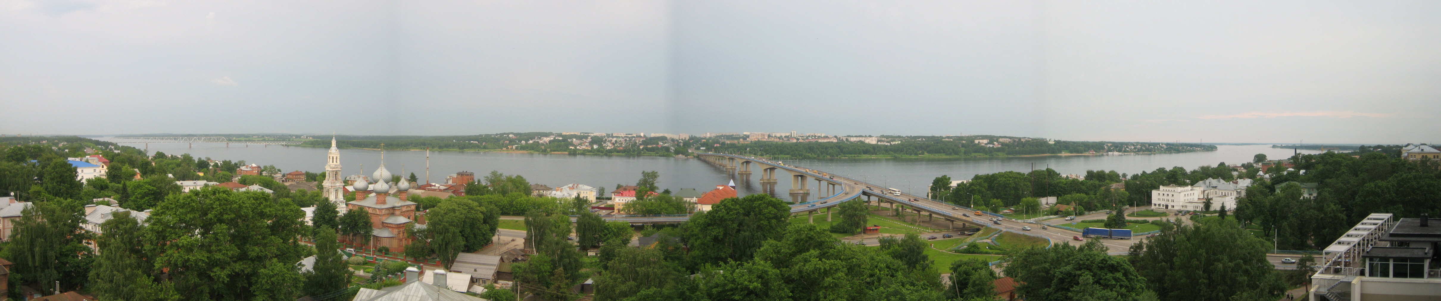 Volga in Kostroma (Panoramic picture composed of several individual ones)